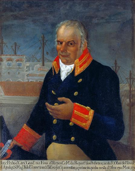 Portrait painting of José Pedro de Carvalho (1746-?), the master who laid the first stone of the Royal Palace of Ajuda, in Lisbon, Portugal, in 1796.